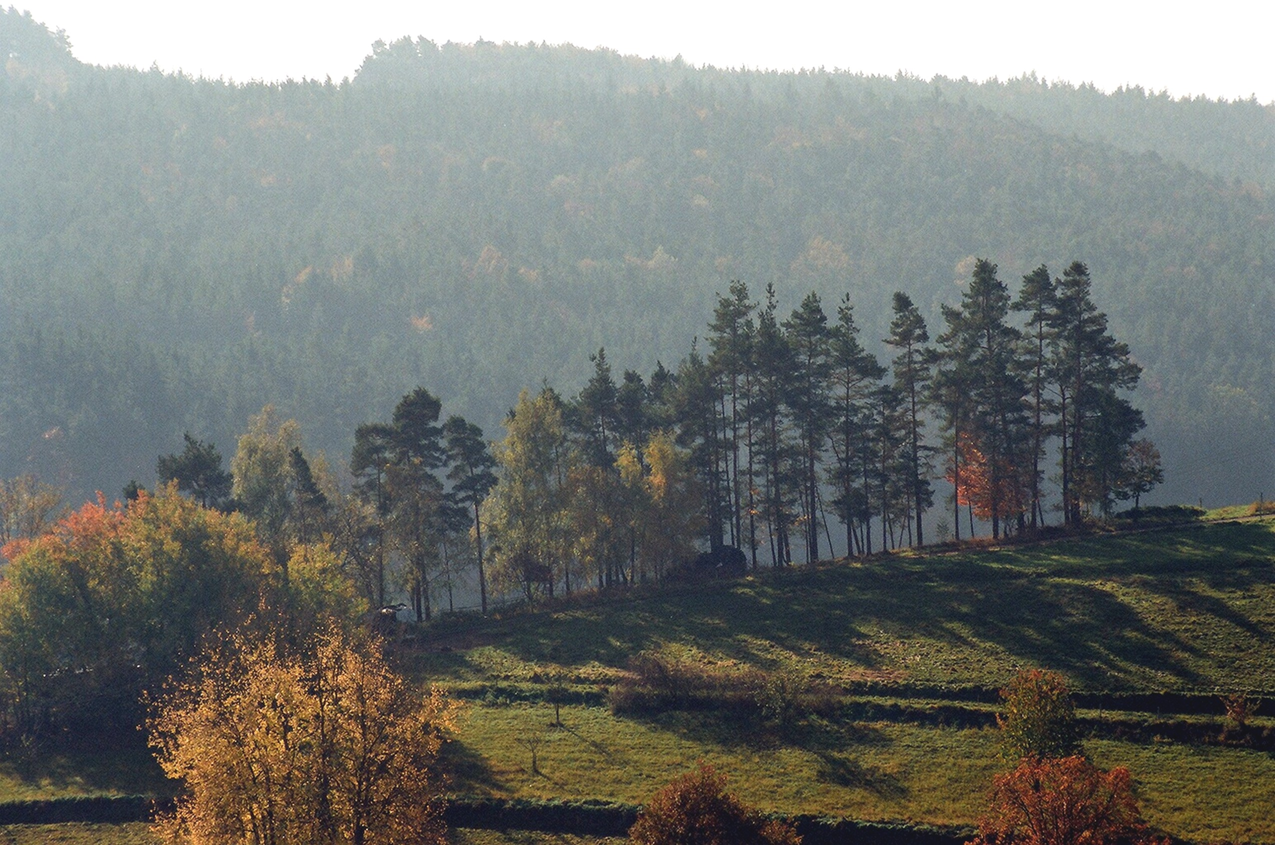 Obererlbach (Haundorf), landscape